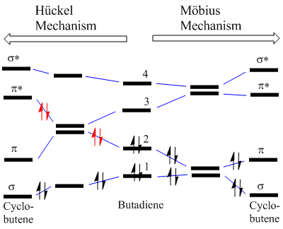 This provides a Correlation Diagram showing how M-H Degeneracies permit obtaining the MO correlations